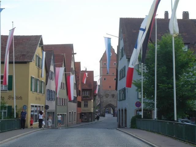 Dinkelsbühl, Wörnitz Gate